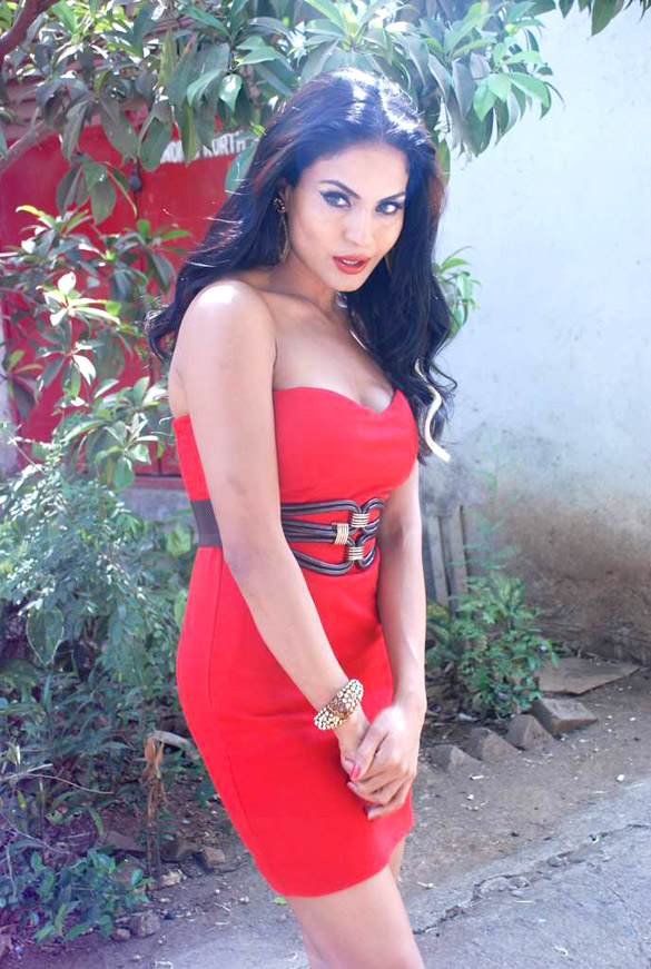 Veena malik movers and shakers